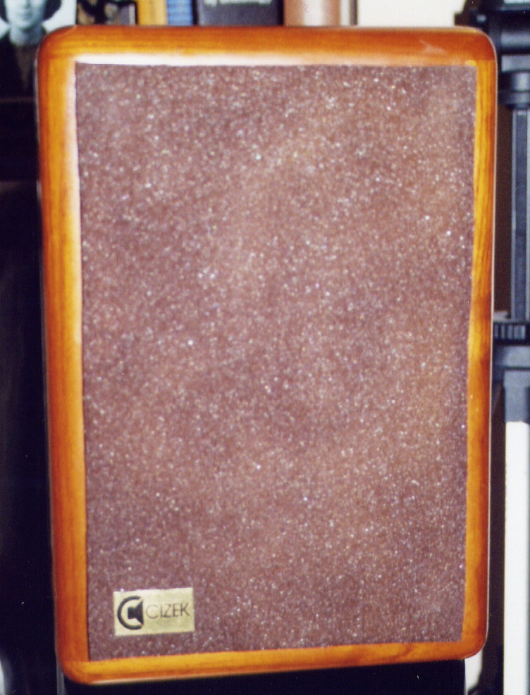 Cizek KA-1 Classic Loudspeaker